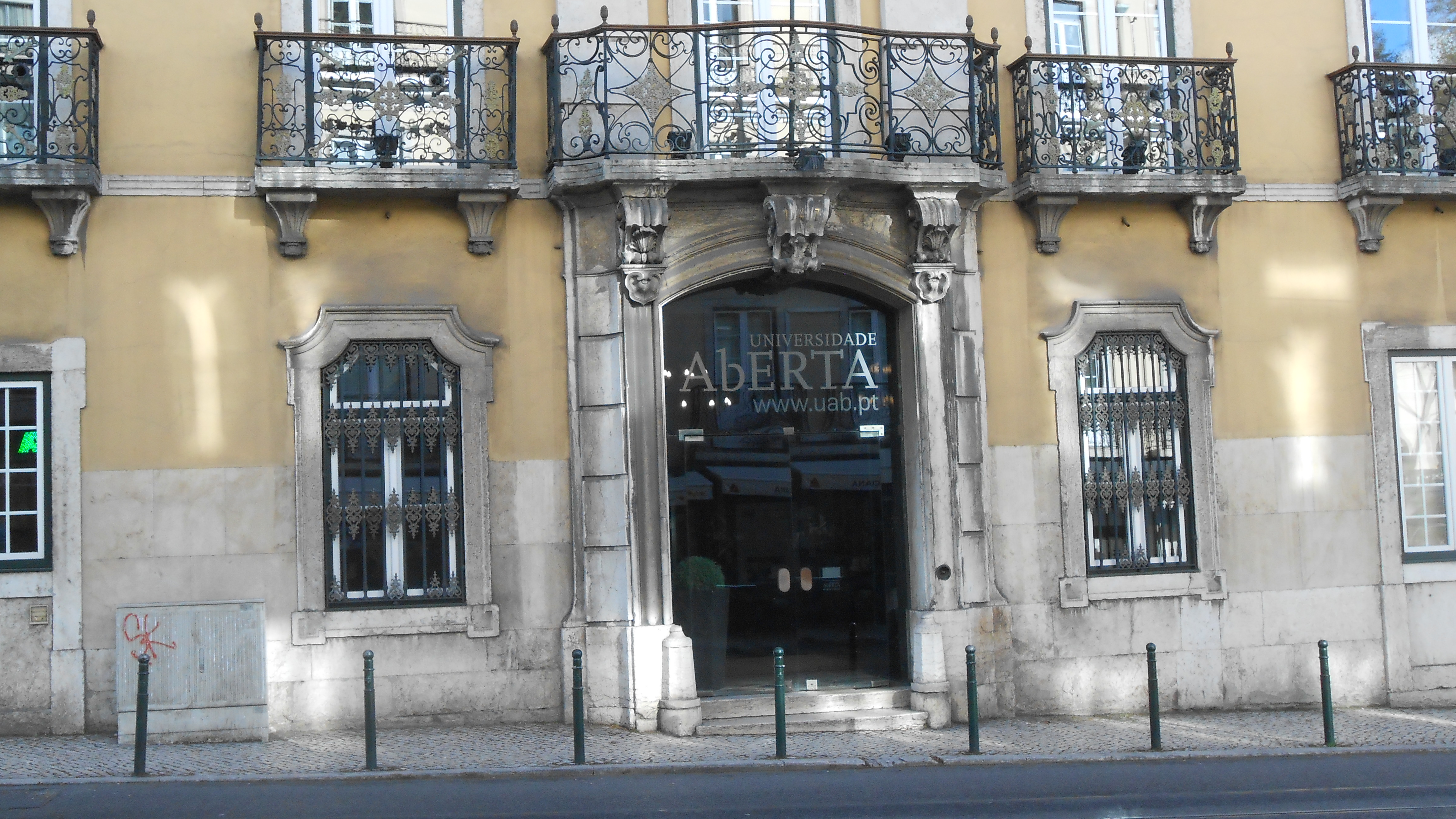 The Universidade Aberta (Open University) in Lisbon, situated in the Palácio Bramão, which was built in 1760.